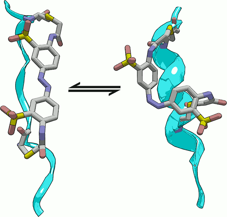 Cartoon of peptide forming more or less alpha-helical state under the influence of the photochromic geometric isomerisation of a sulfonated azobenzene conjugated to cysteine residue sidechains